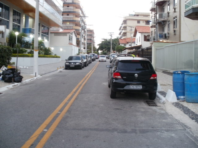 View of Mercúrio Street, next to Praia do Forte, in Cabo Frio, Rio de Janeiro state, Brazil.